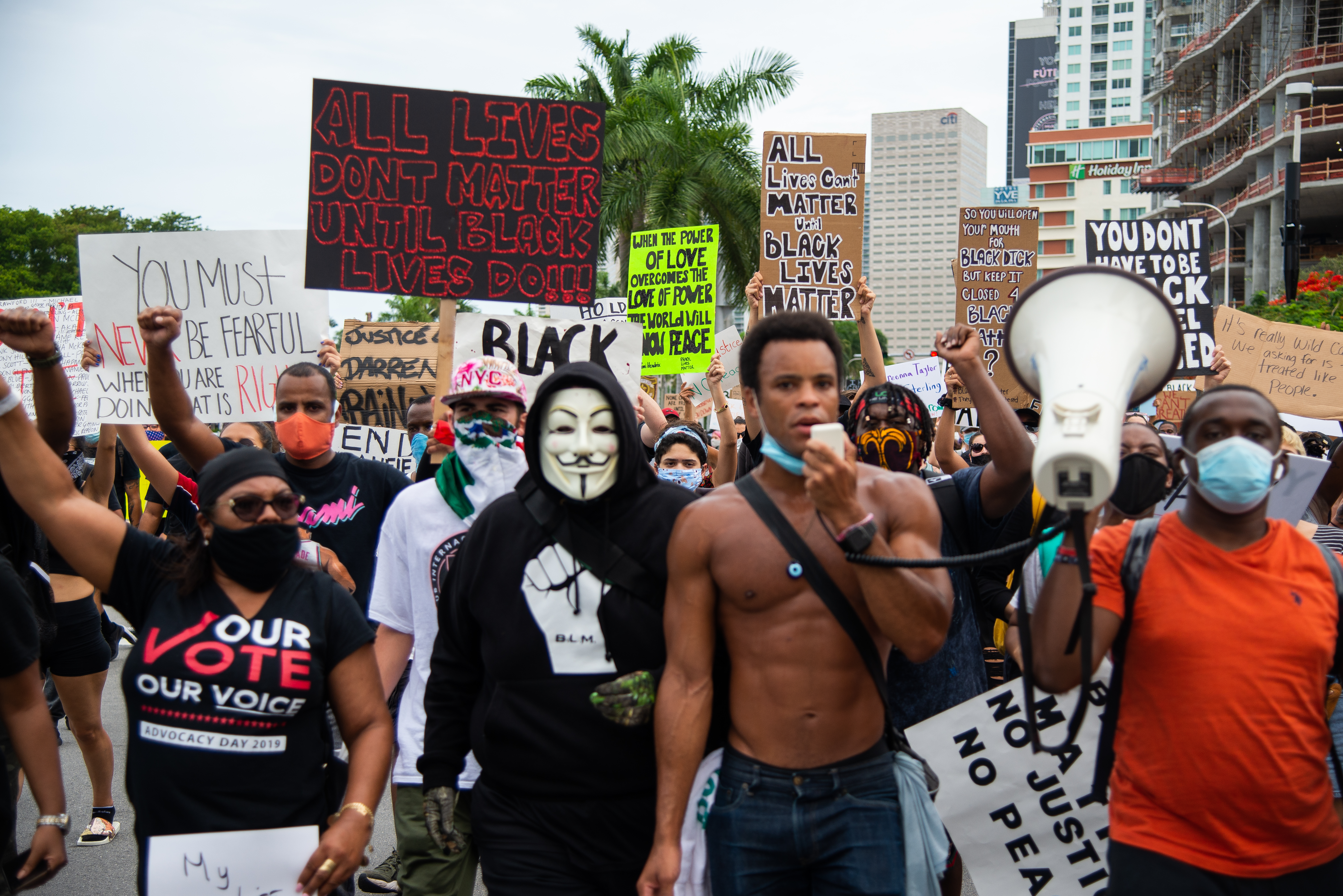 George Floyd protests in Miami, Florida on June 6, 2020.